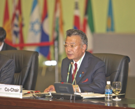 Shōzō Azuma, Senior Vice-Minister of Cabinet Office, attended the Asian Ministerial Conference on Disaster Risk Reduction in Incheon City on October, 2010. (For terms of use, see 内閣府ホームページ利用規約 - 内閣府.)